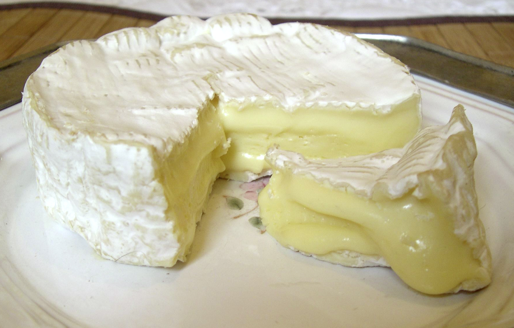 Camembert of Normandy - French cheese